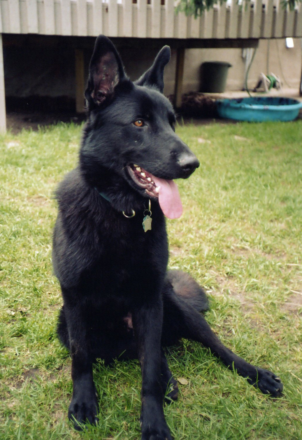 Solid black, 1-year-old German Shepherd Dog.